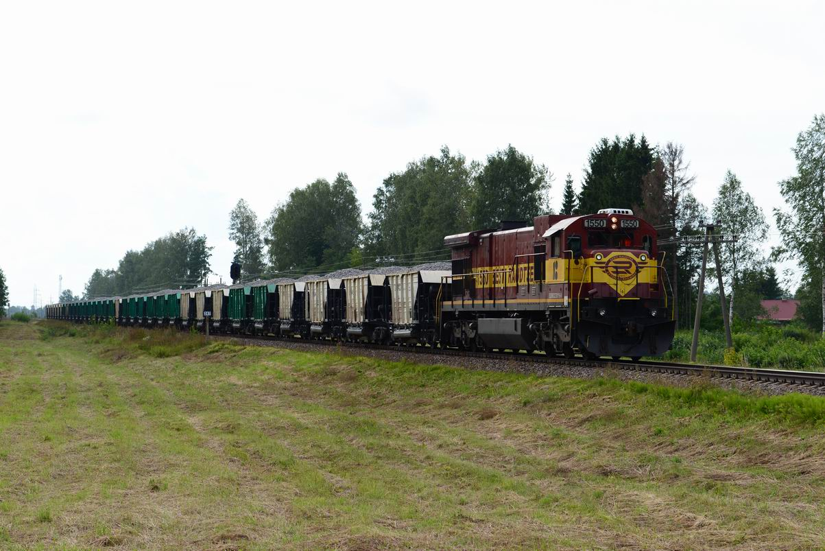 Engine 1550 (GE-C36-7i) between Kiviõli und Püssi in August 2019